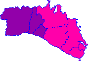 Map of the evolution of the tonic closed E of vulgar latin in Menorcan, according to Montoya, Brauli (1995) "L'observació del canvi fonològic en el català balear" in La Sociolingüística de la variació, Barcelona: Promociones y Publicaciones Universitarias, pp. 165-220 .